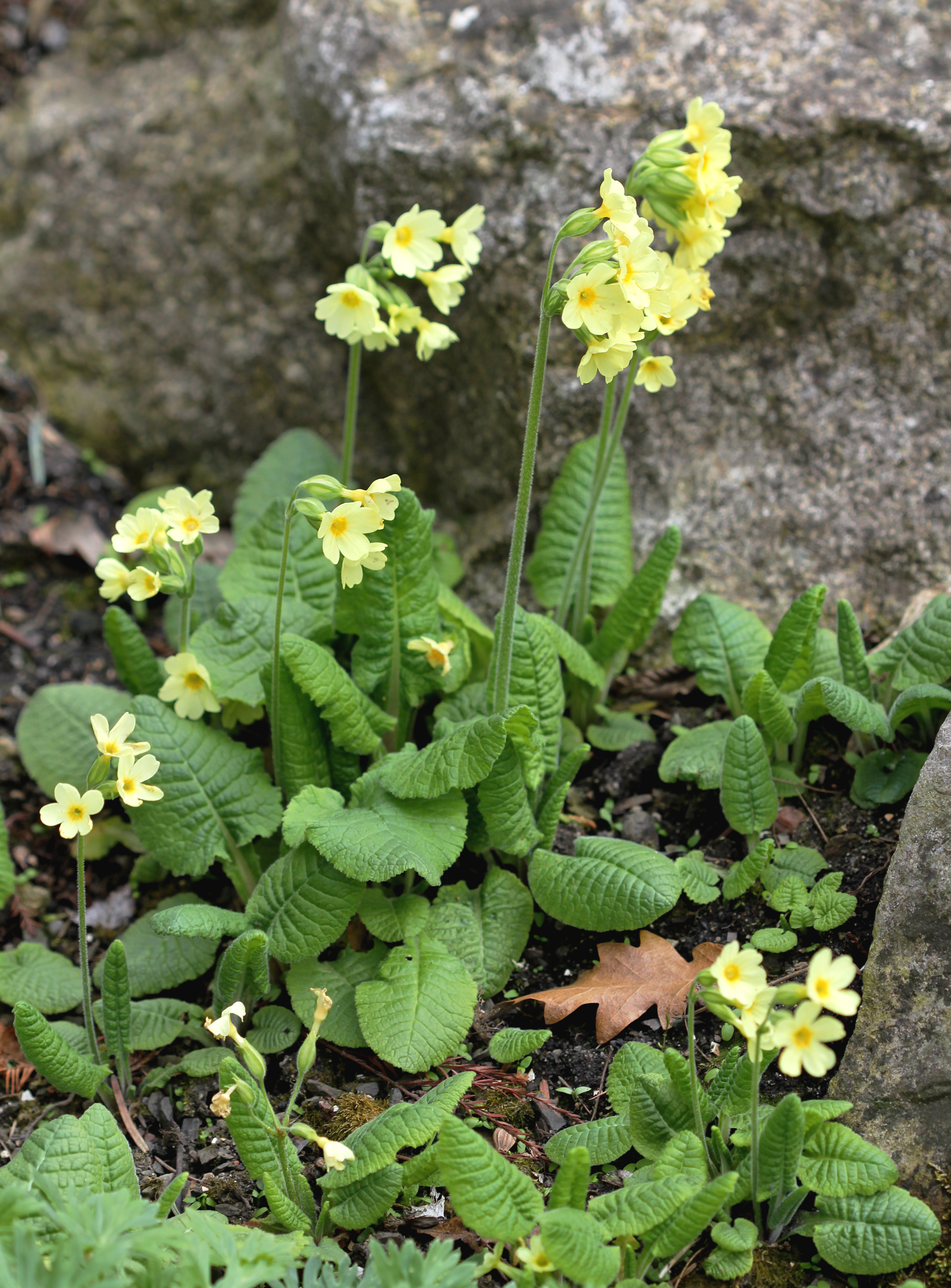 Flowering plants Primula elatior, (Primula elatior) from the Botanical Gardens of Charles University, Prague, Czech Republic